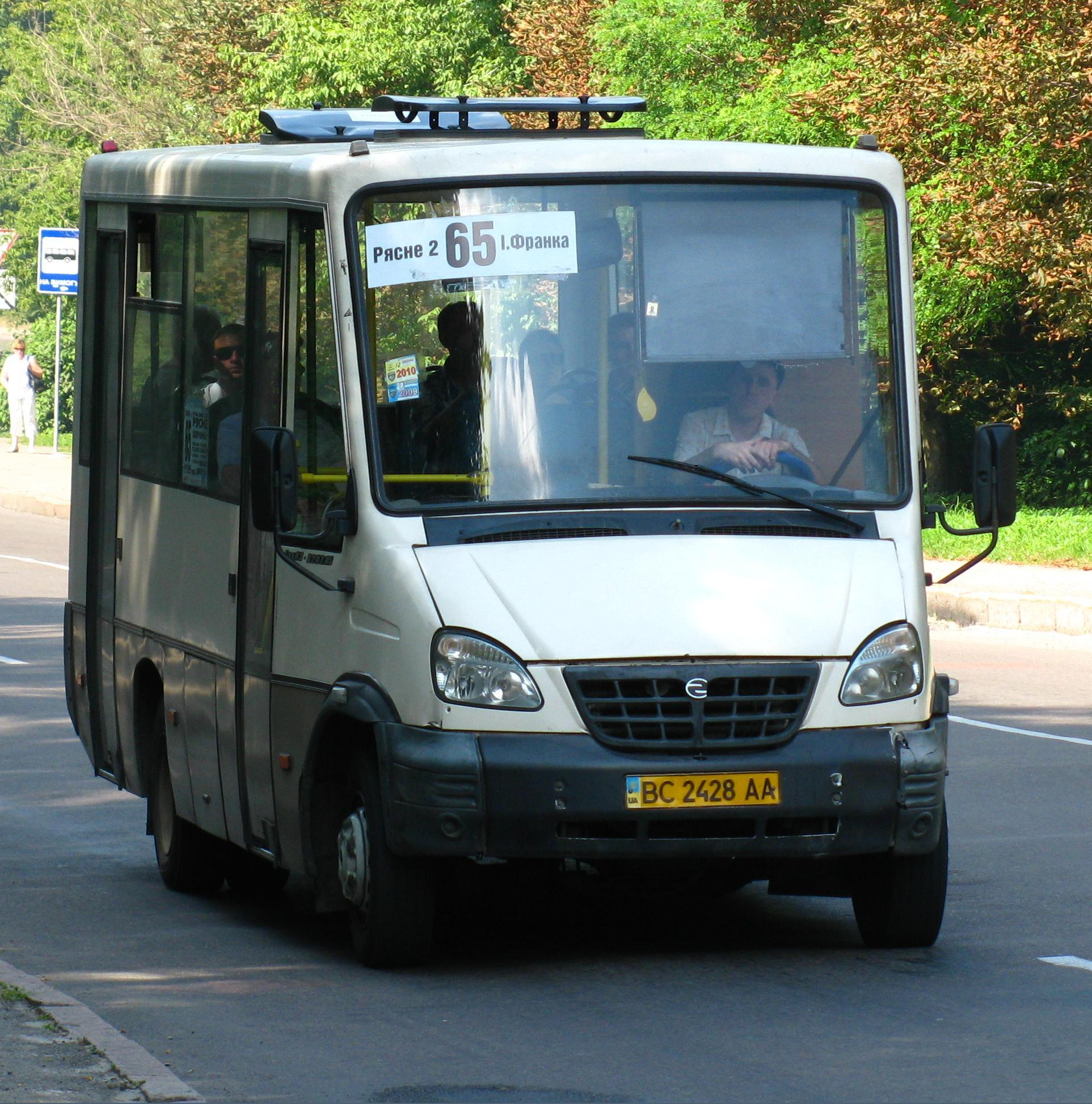 GalAZ-3207 (Victoria) in Lviv